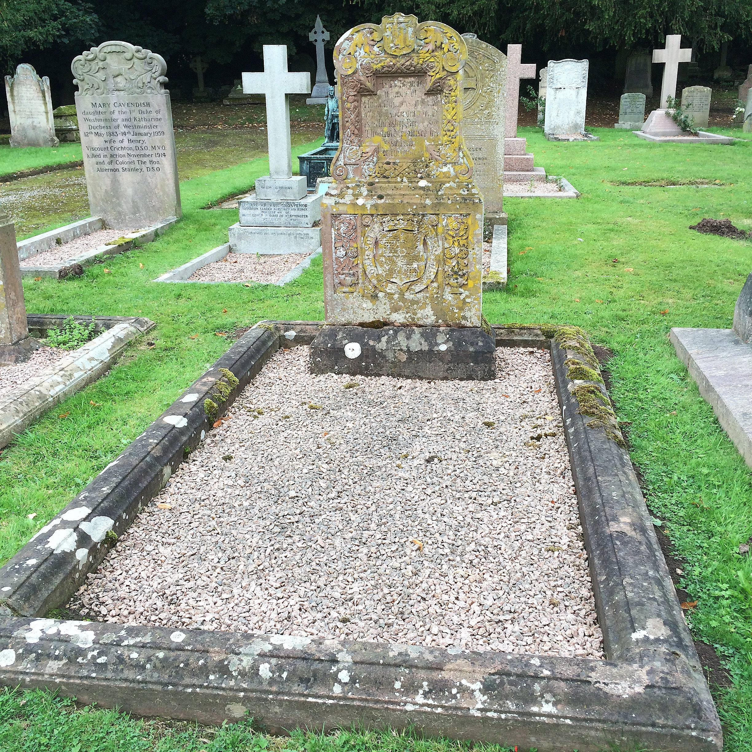 St Mary's Church Eccleston, Old Churchyard - grave of Hugh Grosvenor, 1st Duke of Westminster (13 October 1825 – 22 December 1899). He was cremated in Woking Crematorium, which he had helped to build, and his ashes were later buried in this grave. Note the Grosvenor coat of arms on the grave stone; the shield is encircled with the Order of the Garter, of which the 1st Duke was a member.